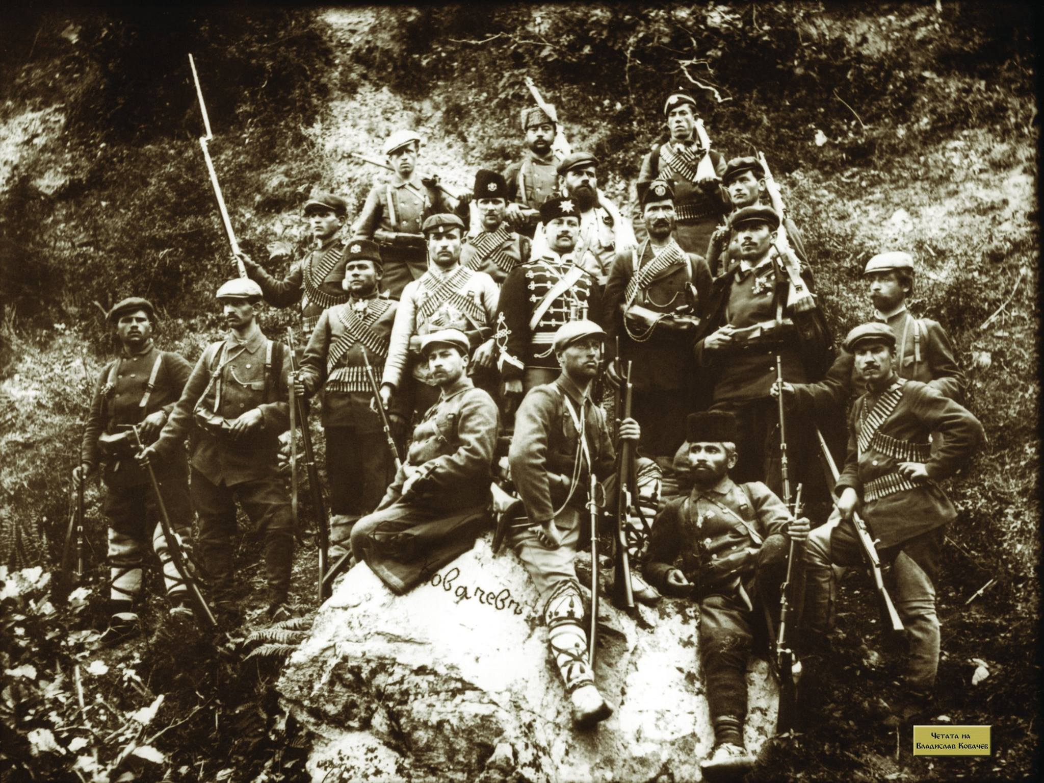 Cheta (detachment) of Macedonian revolutionary Vladislav Kovachev, 1903 This media file is produced by Wikipedian in Residence in Category:Wikipedian in Residence at DARM in 2016.